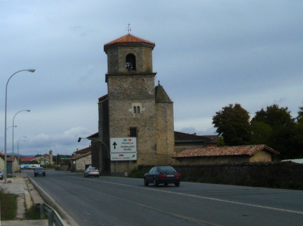 Elorriaga (Vitoria-Gasteiz, Basque Country, Spain)